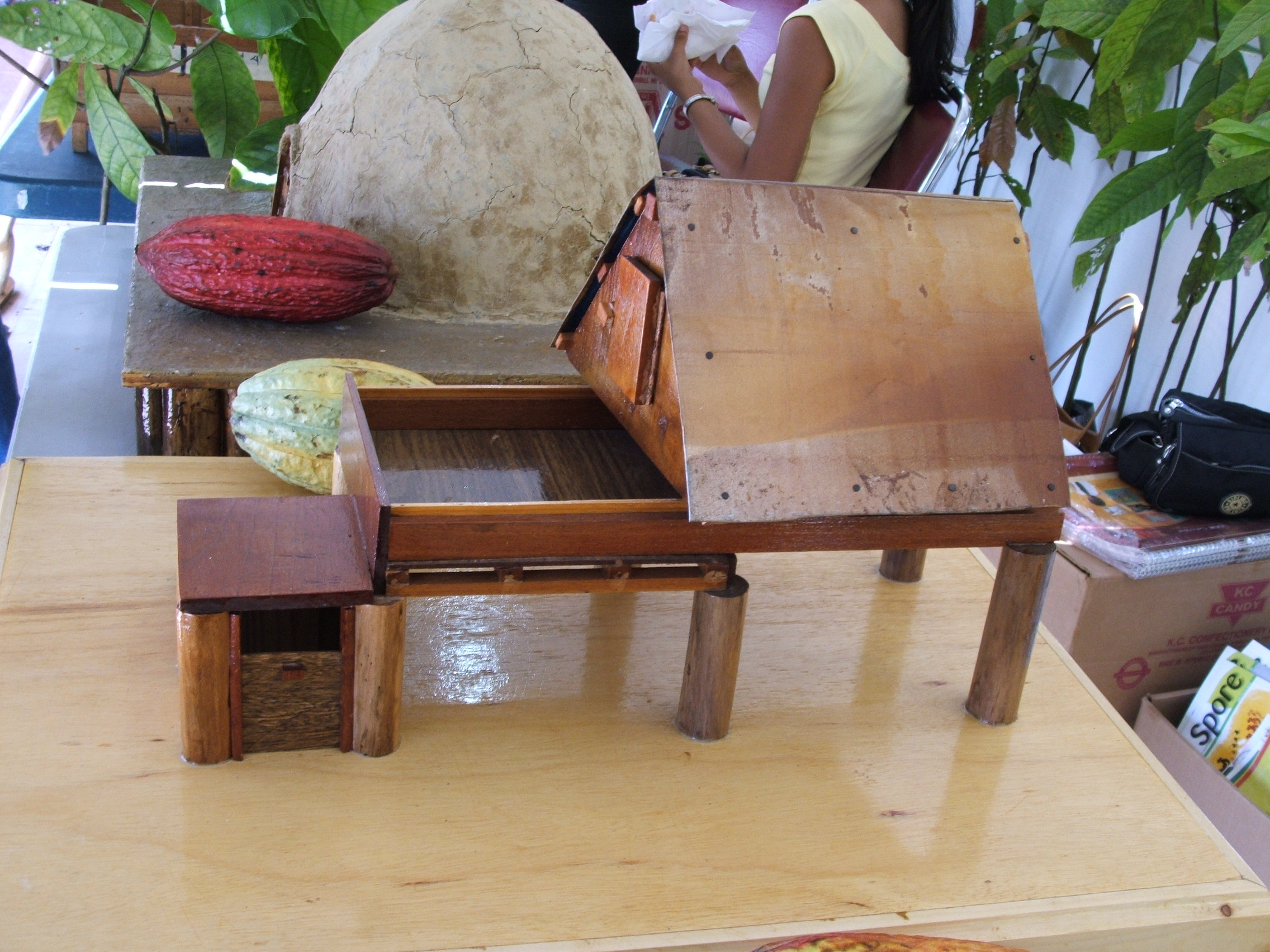 Cocoa House - Drying of Cocoa Beans